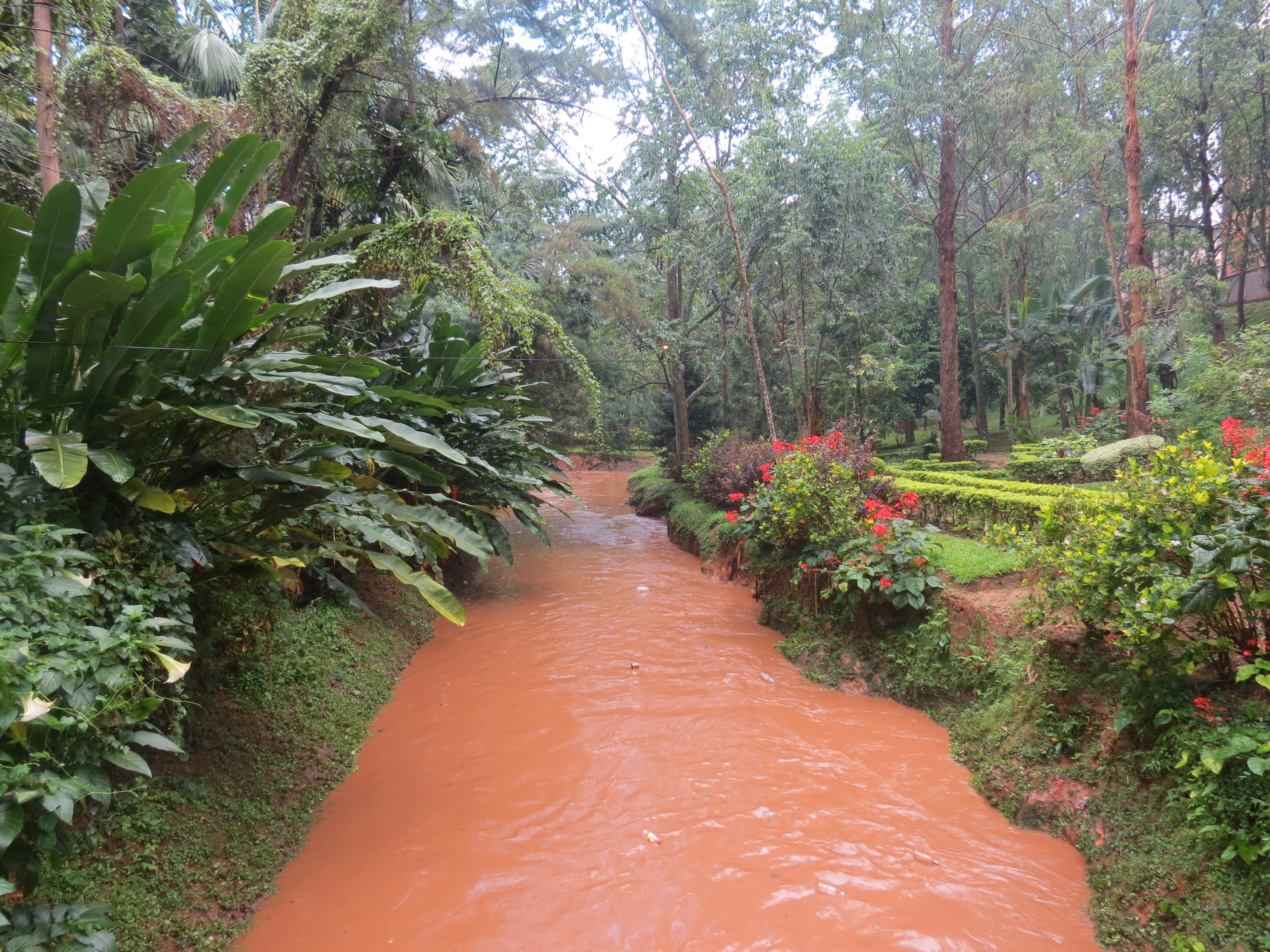 Inside the park Saint Anastasie Woods in the city centre of Yaoundé.